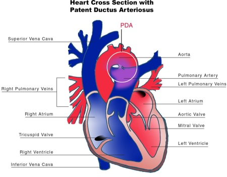 Patent ductus arteriosus